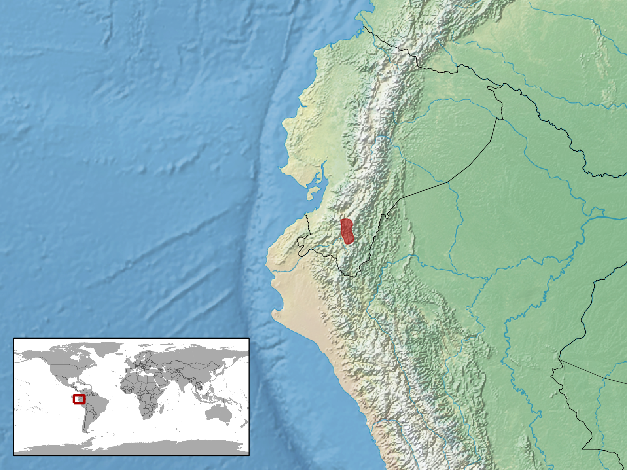 geographic distribution of Bothrops lojanus (Native: Ecuador)